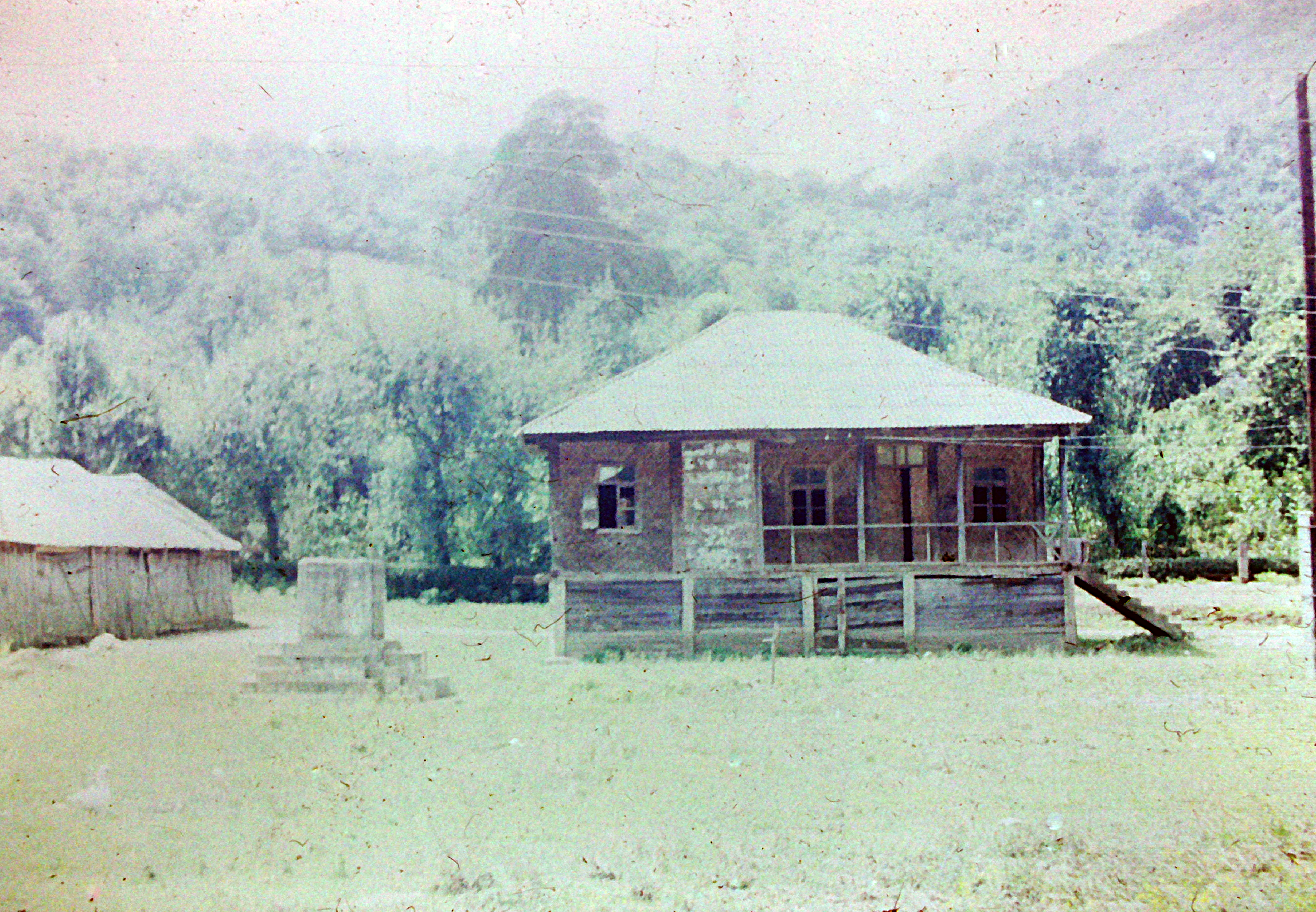 The haus in Abkhasia where Berya was born (1973)